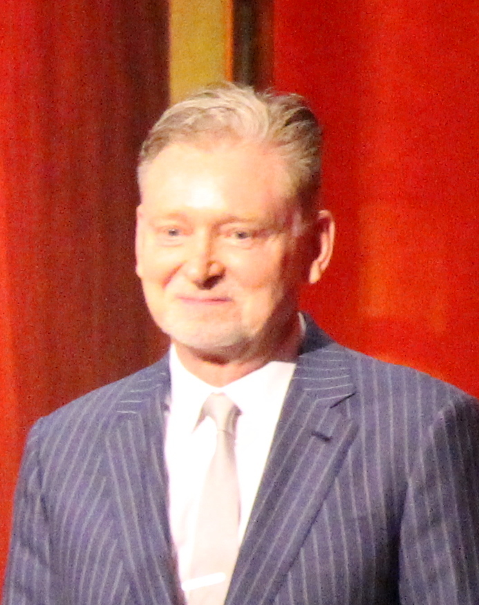 Executive Producer Noah Hawley accepts the Peabody for Fargo. He is joined on the stage by Warren Littlefield and John Cameron.